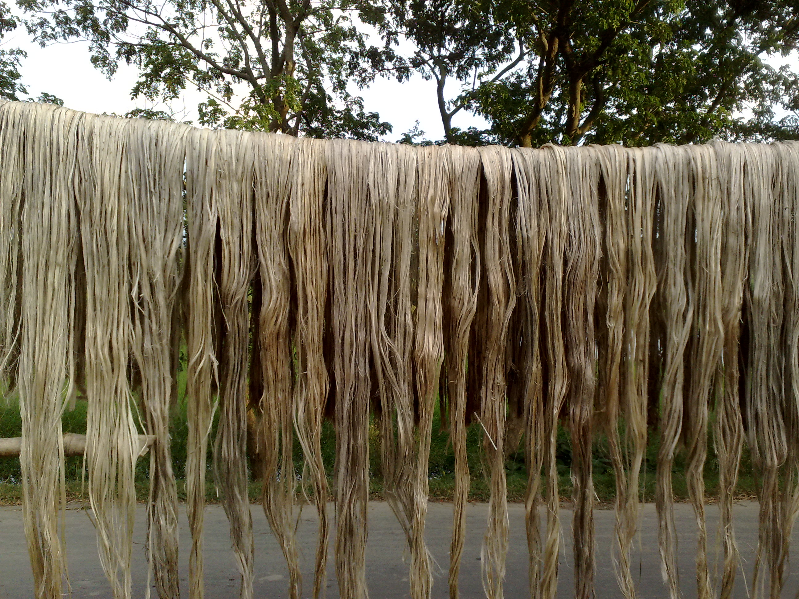 Jute is being dried under the sun, a closer look